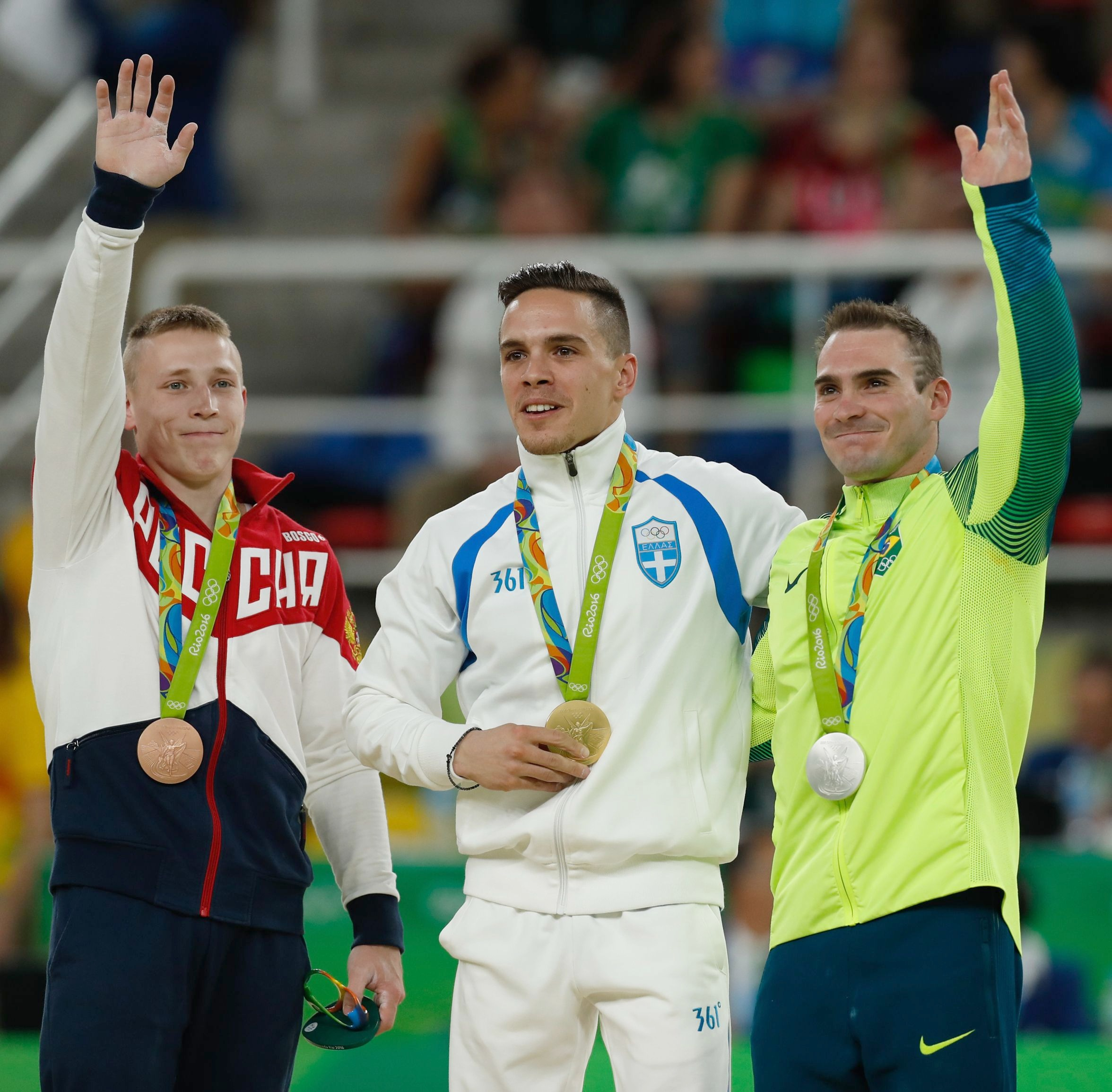 Competitions in gymnastics at the Olympics 2016. Discipline - rings.